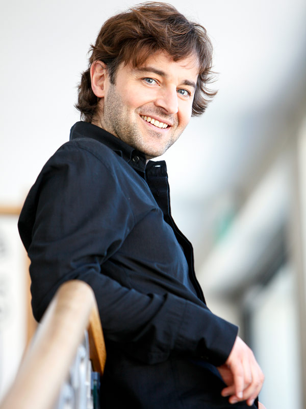 The Tenor Voice of Popular Classic, Erkan Aki